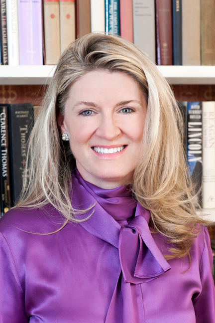 Candidate for New York State Senate Wendy Long, Headshot